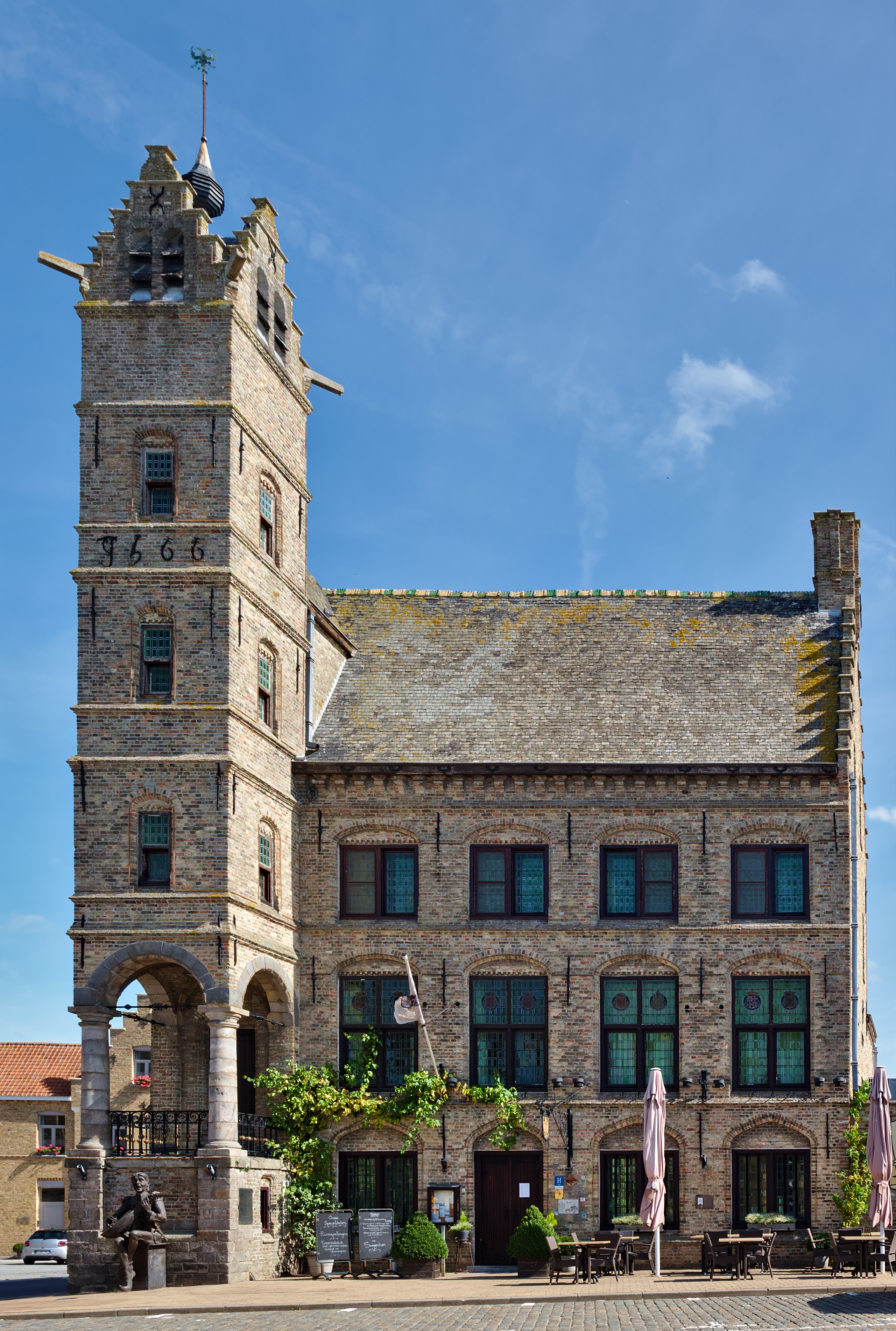 Old town hall and belfry of Lo, currently serving as a hotel-restaurant (Lo-Reninge, Belgium) This photo of immovable heritage has been taken in the Flemish Region This place is a UNESCO World Heritage Site, listed as Belfries of Belgium and France.